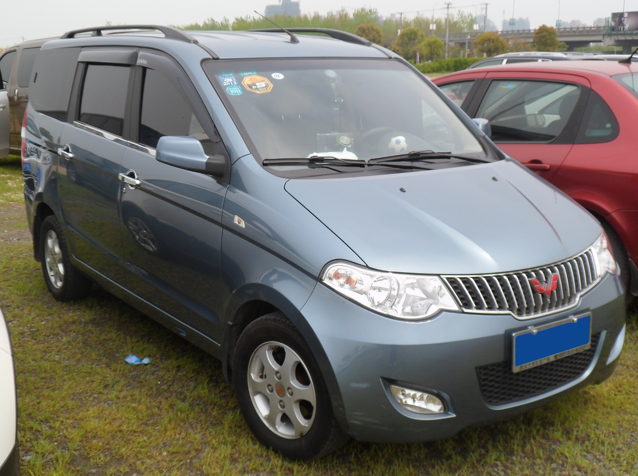 Wuling Hongguang photographed in Anting, Shanghai municipality, China.